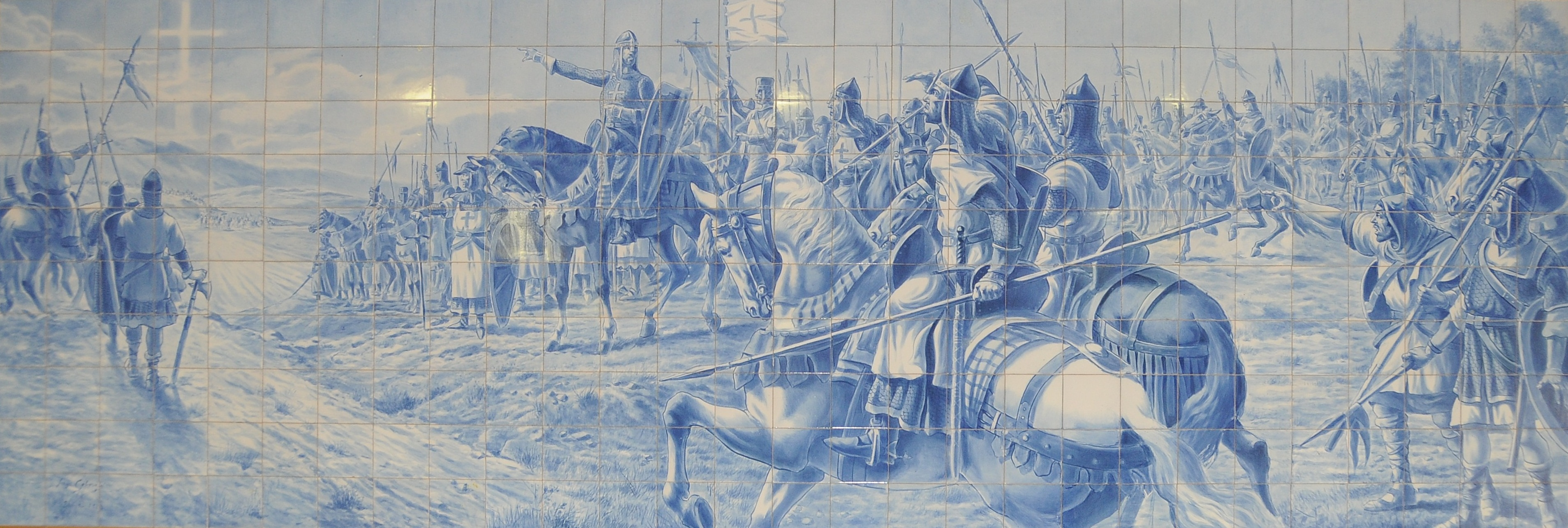 Azulejos of D. Afonso Henriques in Batalha de Ourique, in Centro Cultural Rodrigues de Faria, Forjães, Esposende, Portugal, from Jorge Colaço